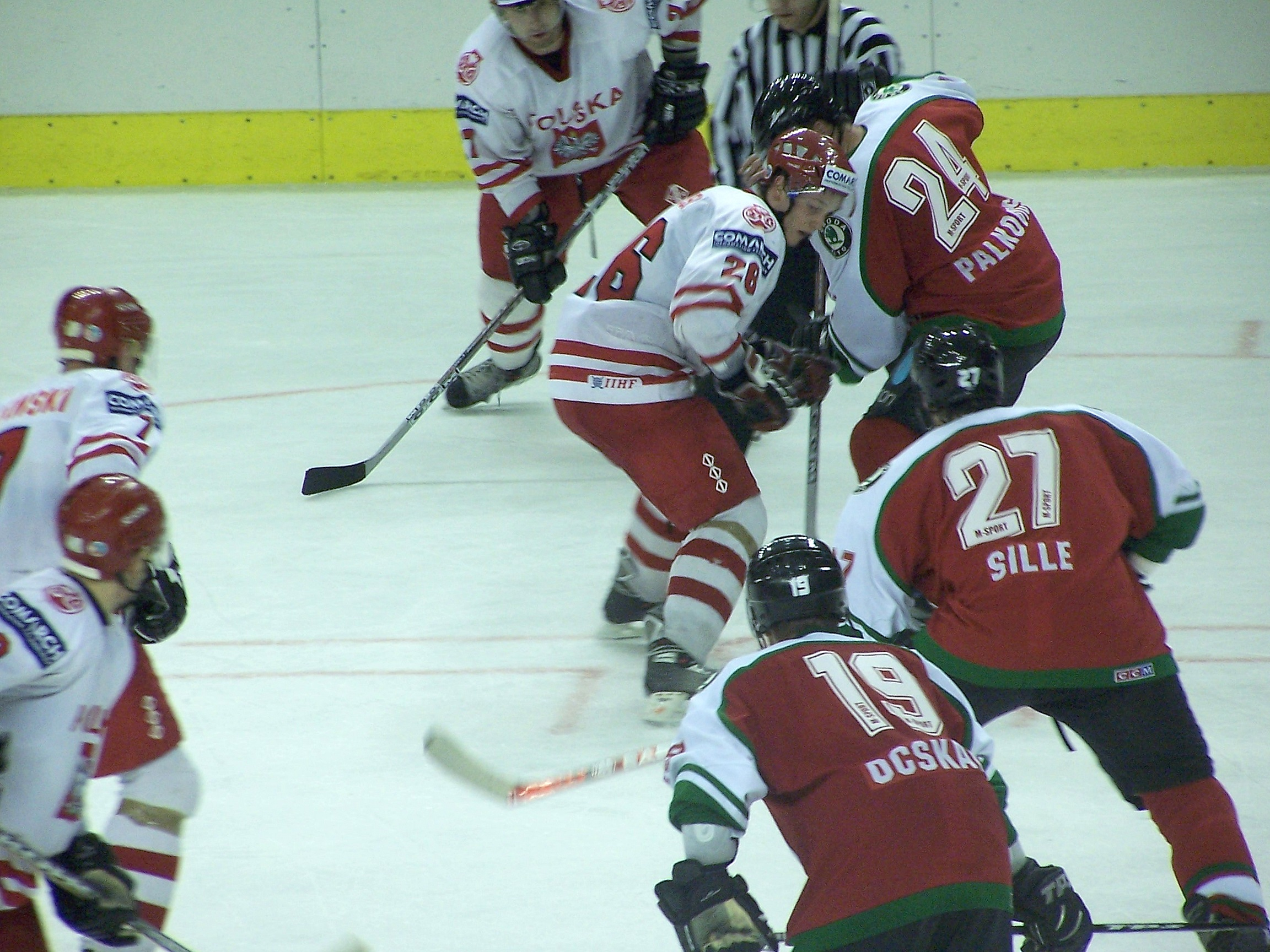 Friendly game Poland-Hungary, April 4-th 2006, Arena Sanok. In front Gábor Ocskay.